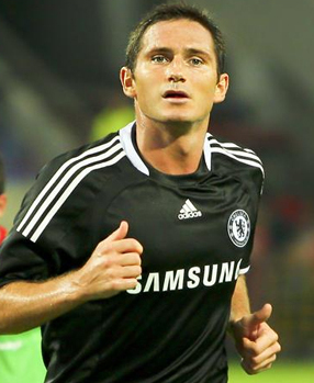 Frank Lampard, playing for Chelsea F.C. at the Russian Railways Cup in 2008